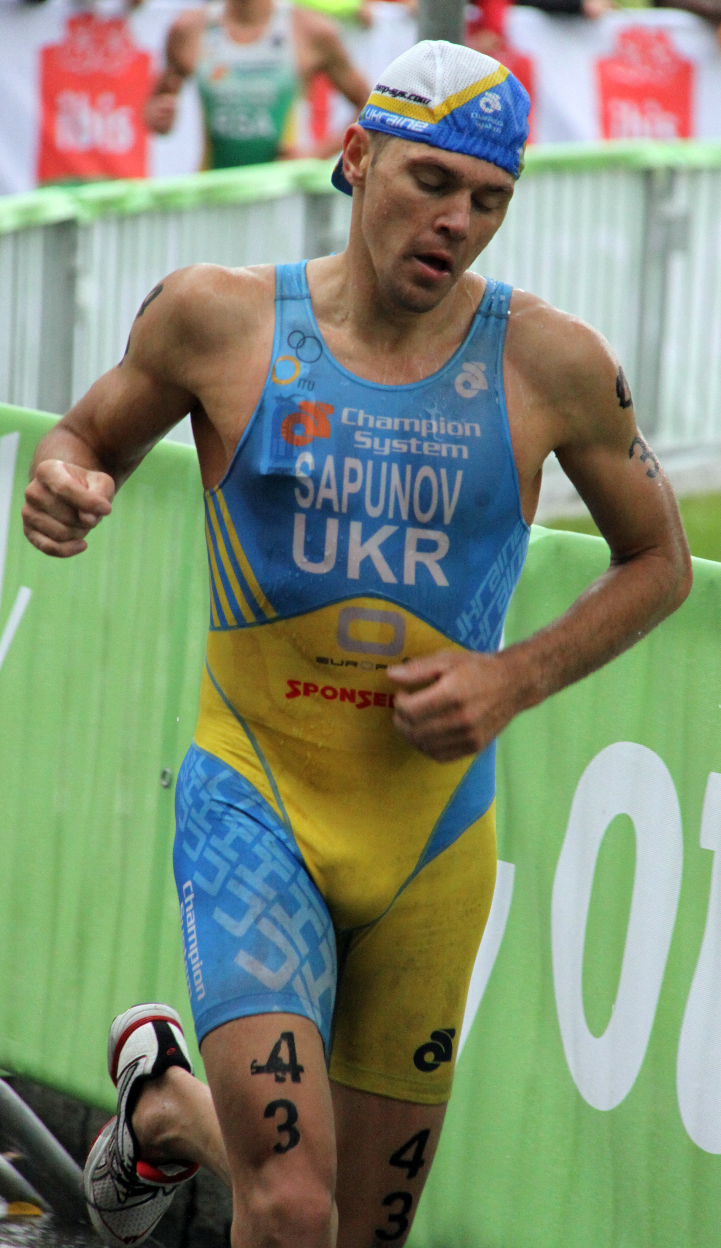 Danylo Sapunov (Данило Сапунов) at the Grand Final of the Triathlon World Championship Series in Budapest 2010.